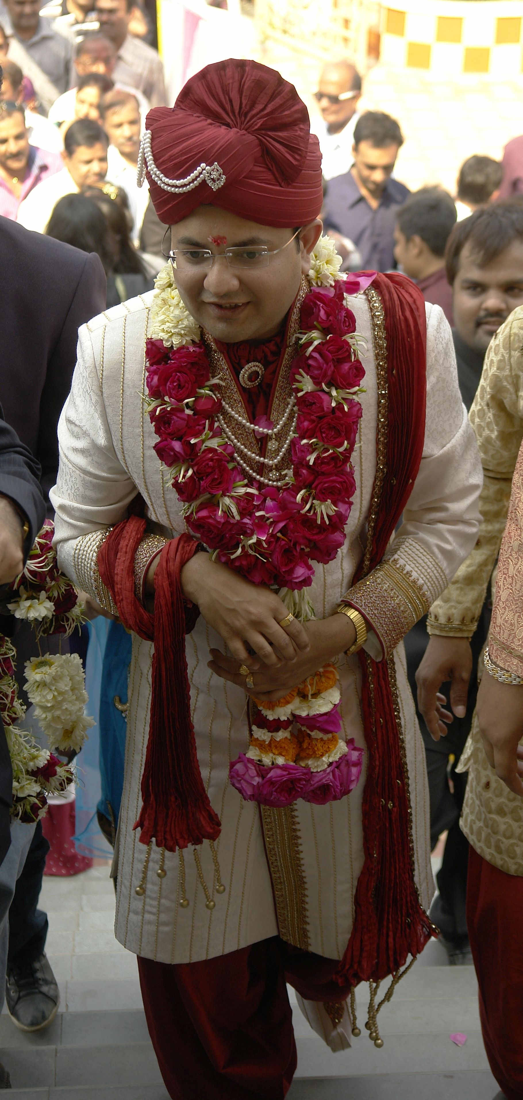 Hindu Bridegroom, Ahmedabad, Gujarat, India.